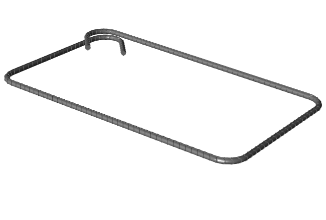 An example of a stirrup used in reinforced concrete structures